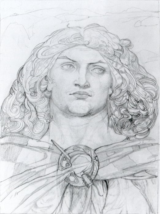 Drawing of the Irish mythological hero by John Duncan.